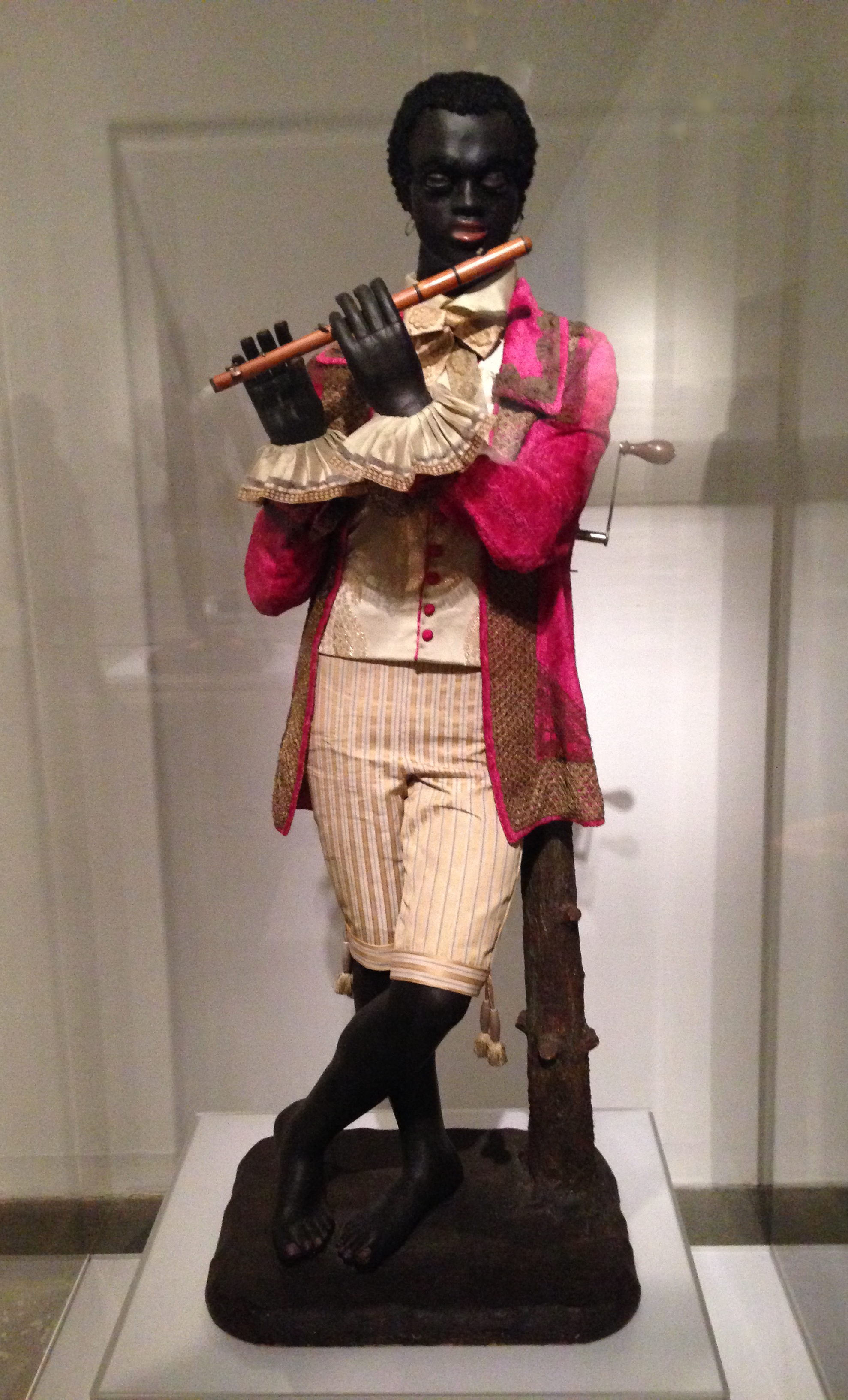 Life-size Flute Player Automaton.